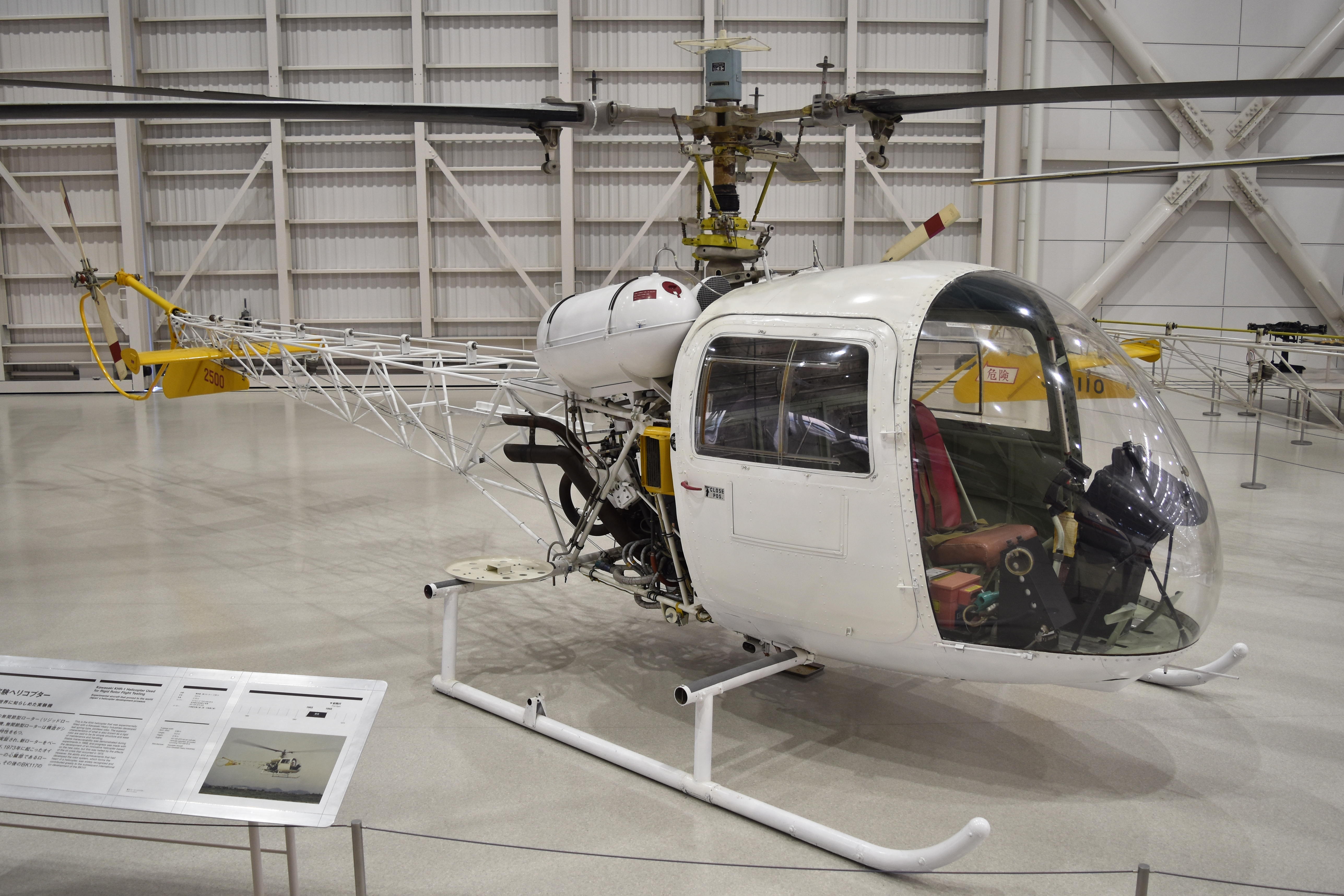 Experimental rigid-rotor helicopter based on the KH-4, itself a local development of the Bell 47. It first flew in April 1968. Kakamigahara Aerospace Science Museum Kakamigahara City, Gifu Prefecture, Japan 15th March 2019